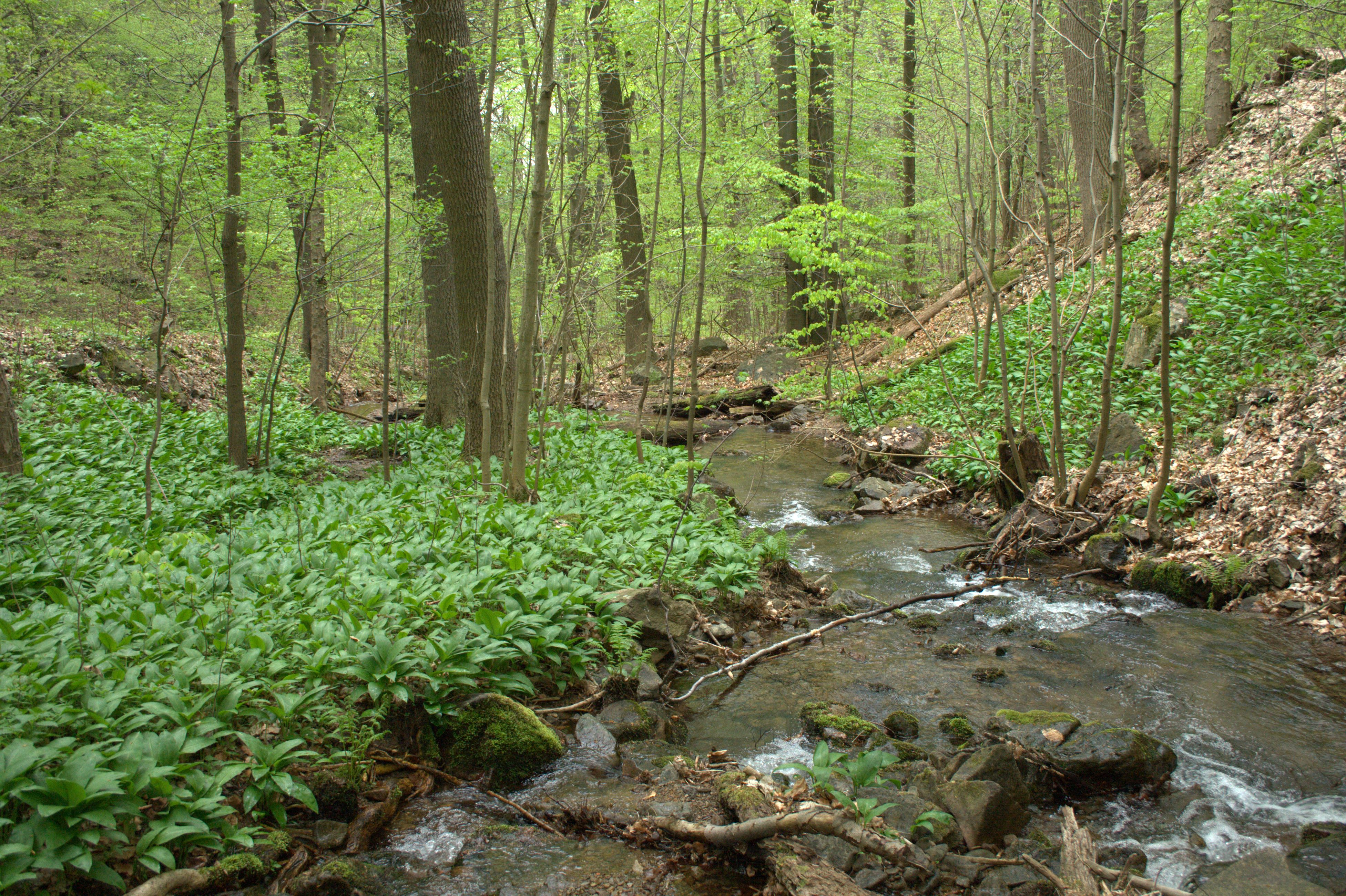 Natural monument Domaslavické údolí in Teplice District, Czech Republic